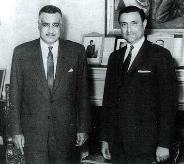 Leader of the United Arab Republic Gamel Abdel Nasser meets with the Foreign Minister of Iraq Adnan Pachachi